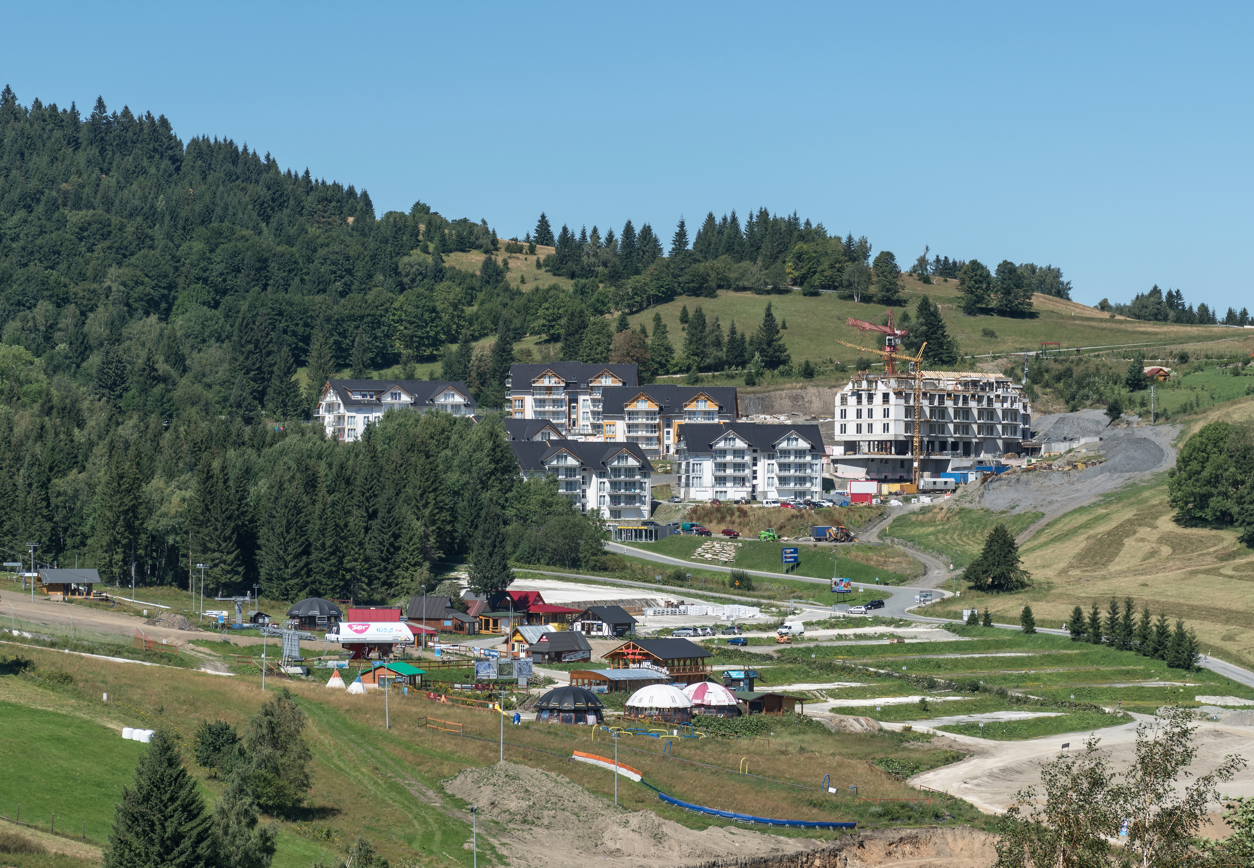 Czarna Góra Ski Resort